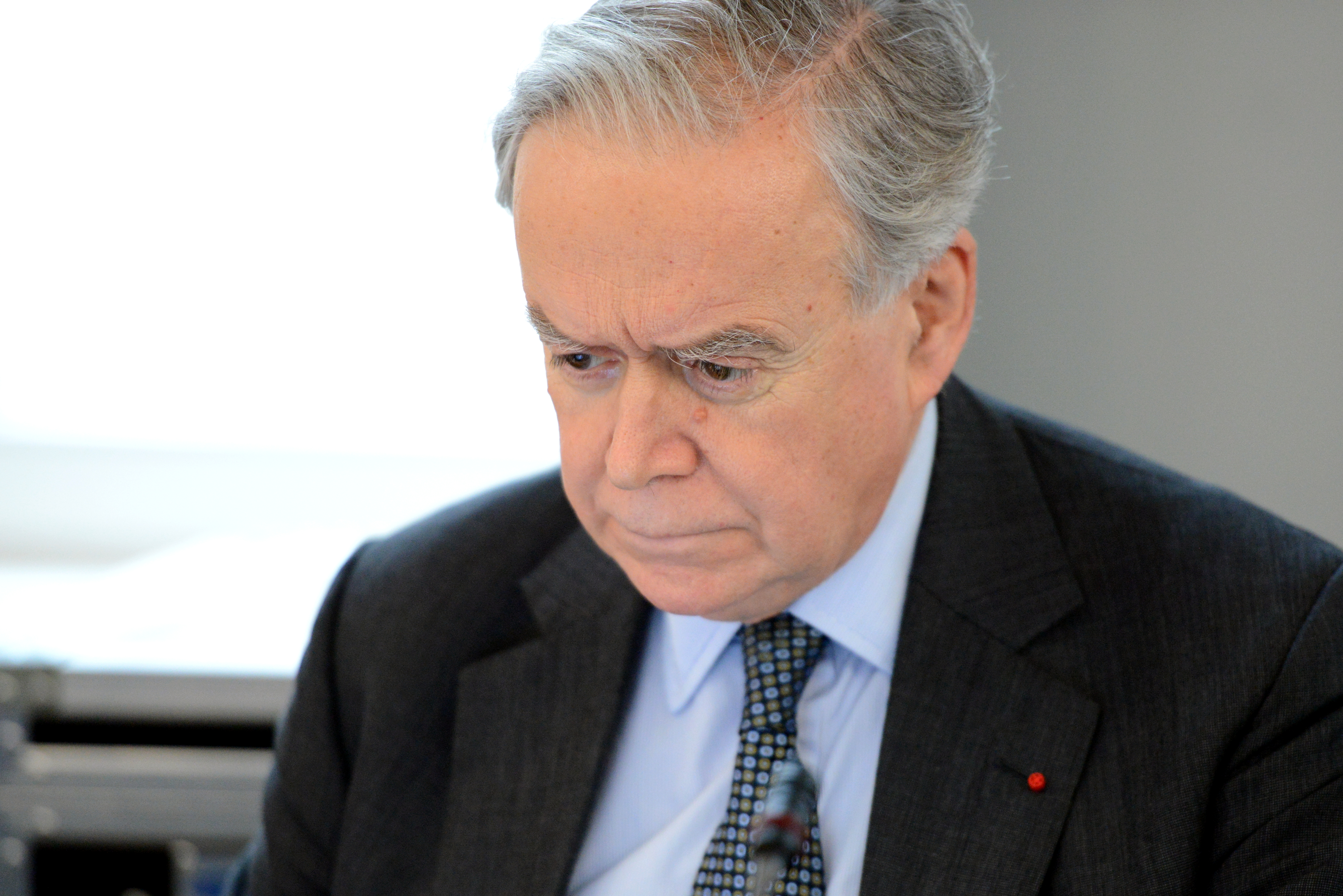 Institut d'études européennes et internationales du Luxembourg, Conference on The Politics of Virtue: the crisis of liberalism and the post-liberal future. A book manuscript by John Milbank and Adrian Pabst, Luxembourg, 17 and 18 October 2014. Pierre Morel, former French Ambassador to the Russian Federation and to the Holy See, France.